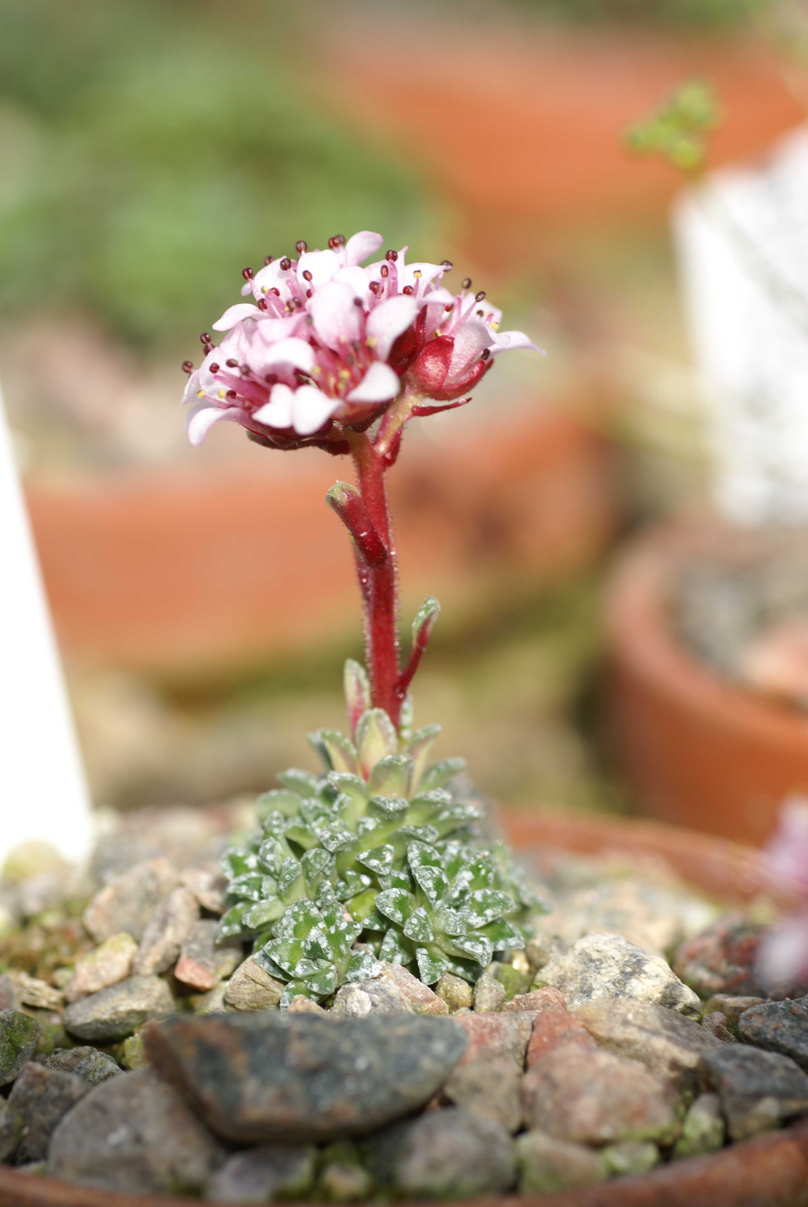 Plant species Saxifraga pulchra" in Botaniska trädgården i Göteborg